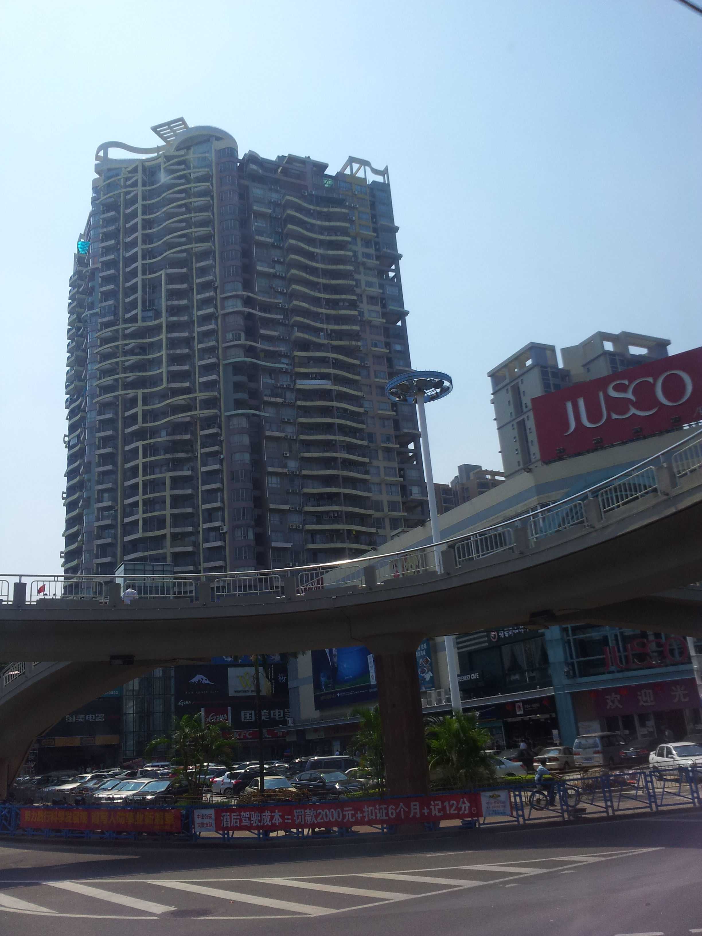 New Shiqi -zhongshan